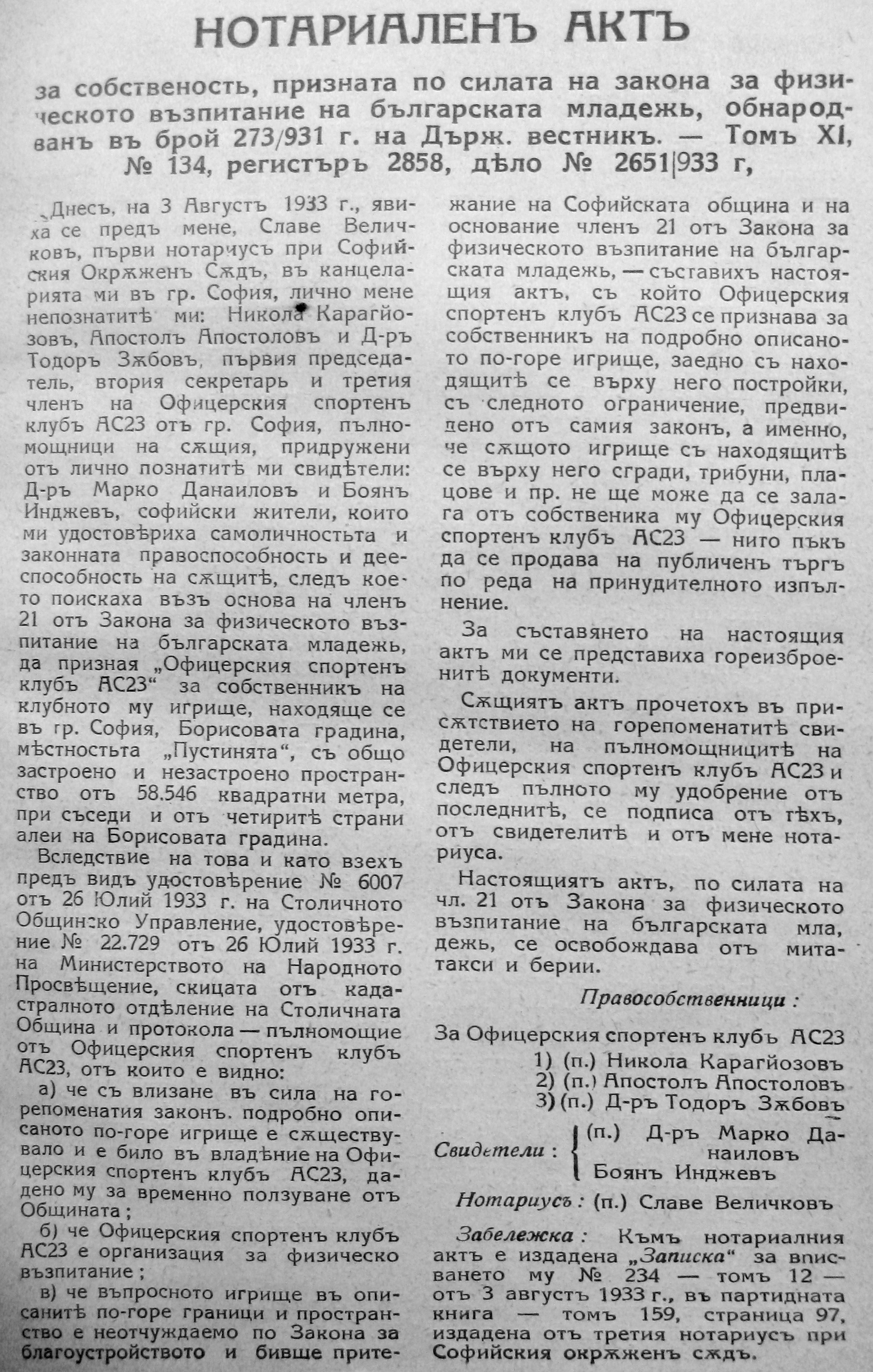 Notarial act for stadium AS-23 (today stadium "Balgarska armiya") and contiguous buildings of AS-23